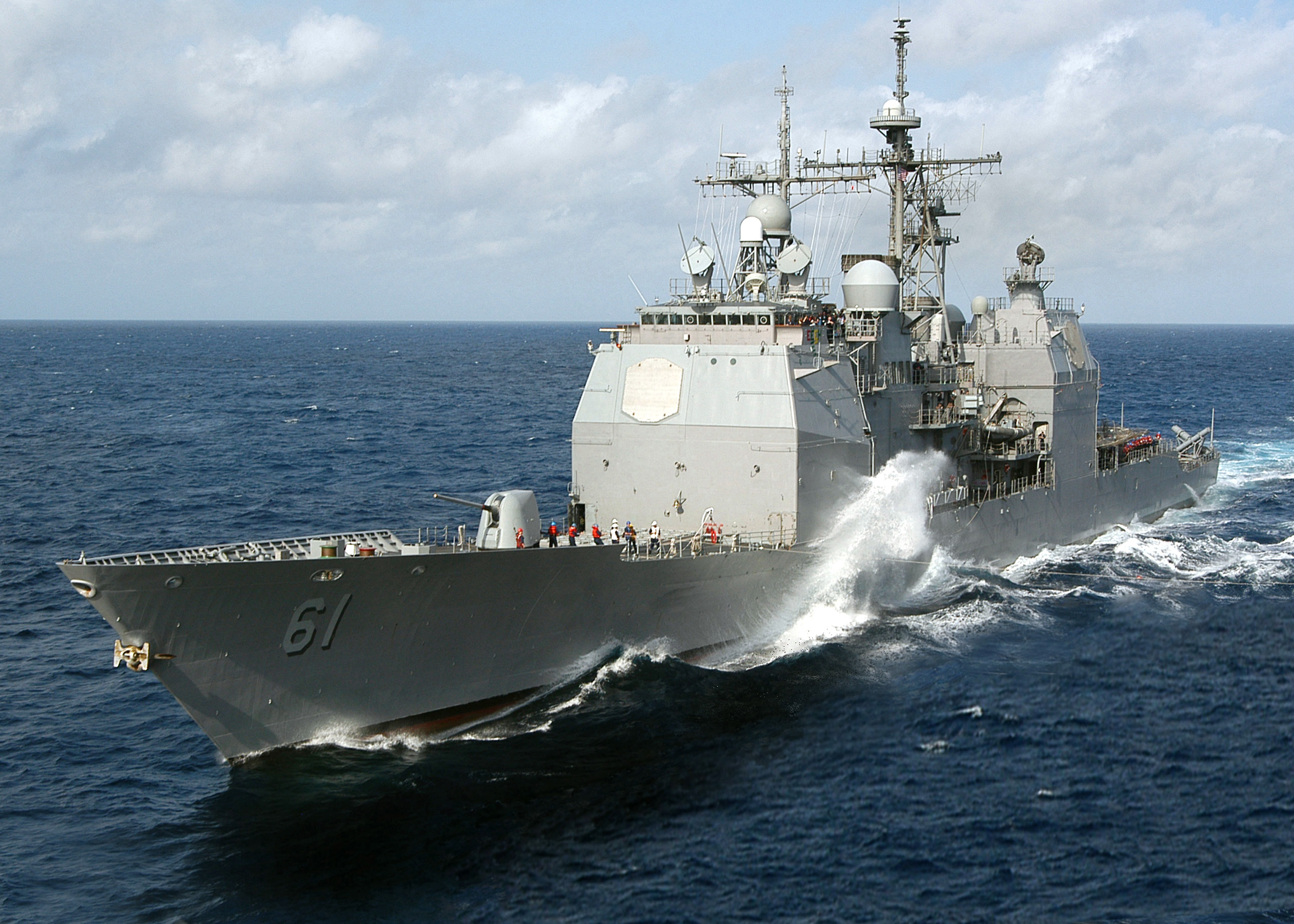 Caribbean Sea - The guided-missile cruiser USS Monterey (CG 61) prepares to conduct a fueling at sea (FAS) with Nimitz-class aircraft carrier USS George Washington (CVN 73). George Washington Carrier Strike Group is currently participating in Partnership of the Americas, a maritime training and readiness deployment of the U.S. Naval Forces with Caribbean and Latin American countries in support of the U.S. Southern Command (SOUTHCOM) objectives for enhanced maritime security.